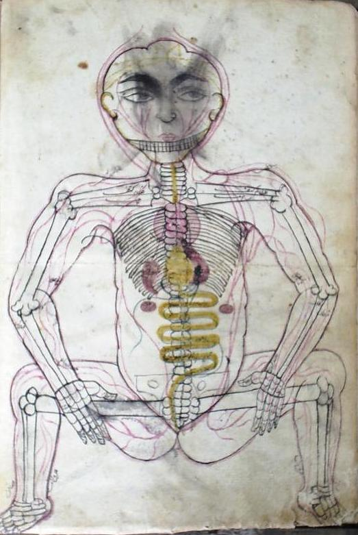 Skeleton of a human from "Kifayeyi-Mansuri" by Mansur ibn Muhammad. Written in 1423 AD. Copied in 1653 AD.